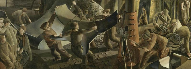 A group of men, left, stand and watch four men steering a steel sheet hanging from chains, a man is hammering a steel sheet in the foreground and two men are decanting large bolts from a box to a sack in front of a furnace. Picture is one third of a larger work.